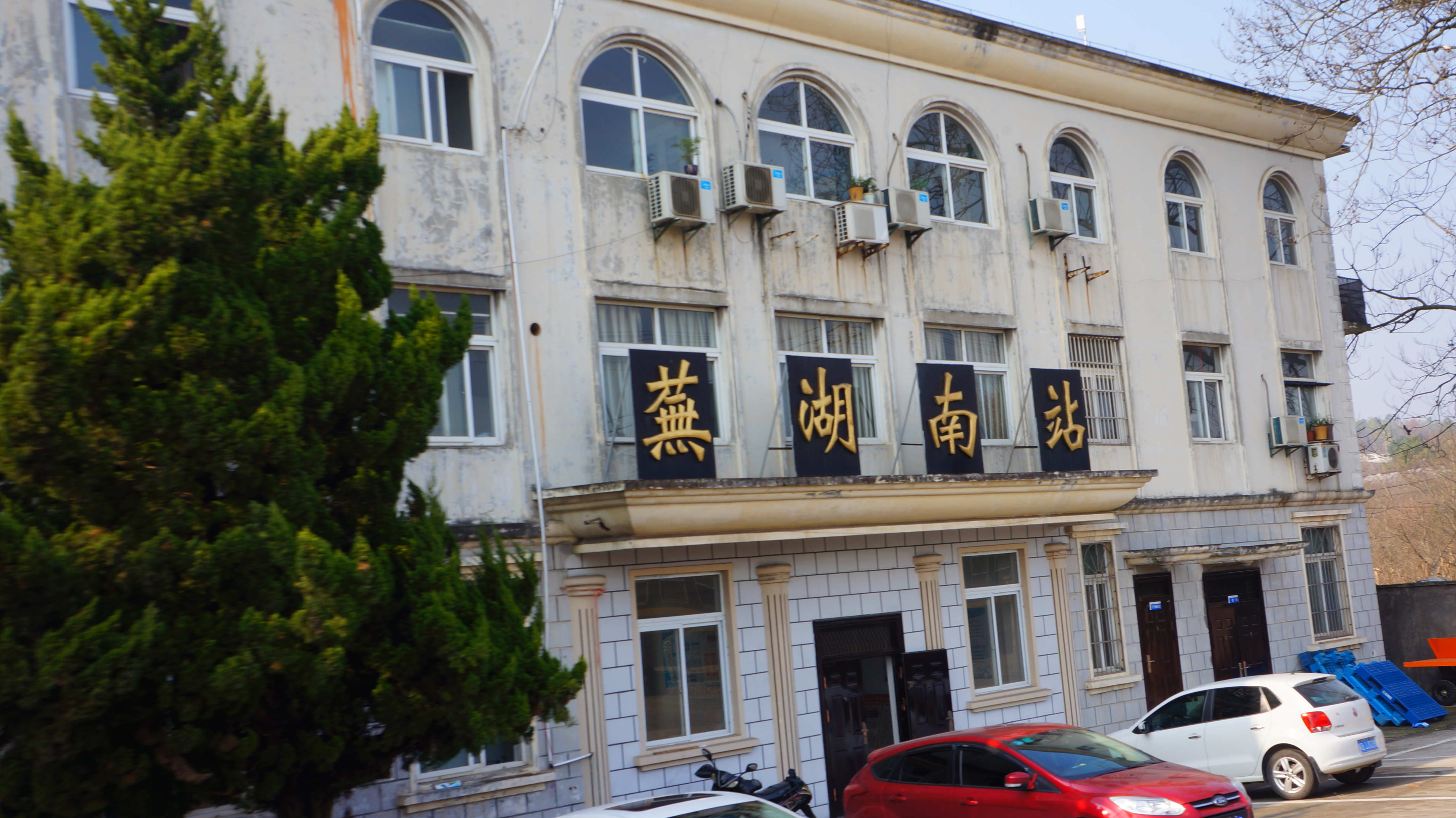 Conductor of Wuhunan Railway Station